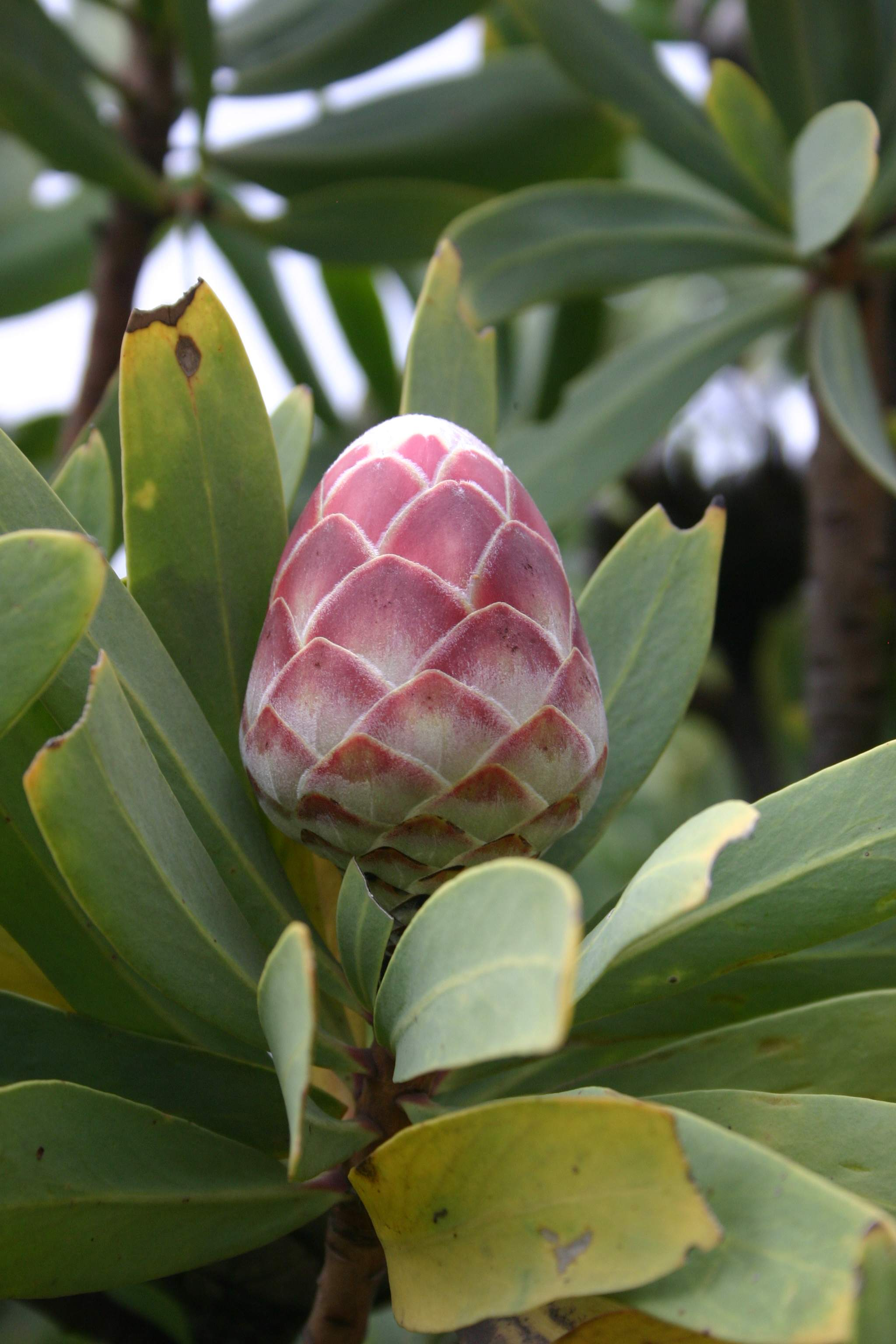 Protea caffra flowerhead bud, Mabela Randjies nr Sparkling Waters, Marikana district, Magaliesberg, South Africa